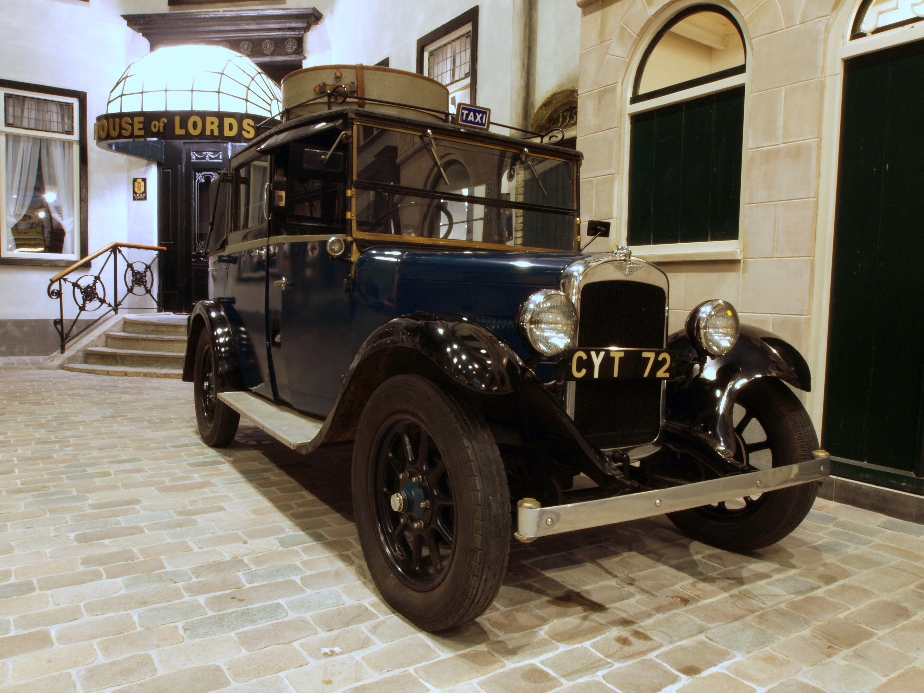 Photographed at the Louwman museum / Louwman Collection, The Netherlands.